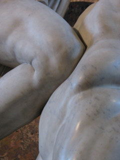 Theseus and Centaur by Antonio Canova - Detail